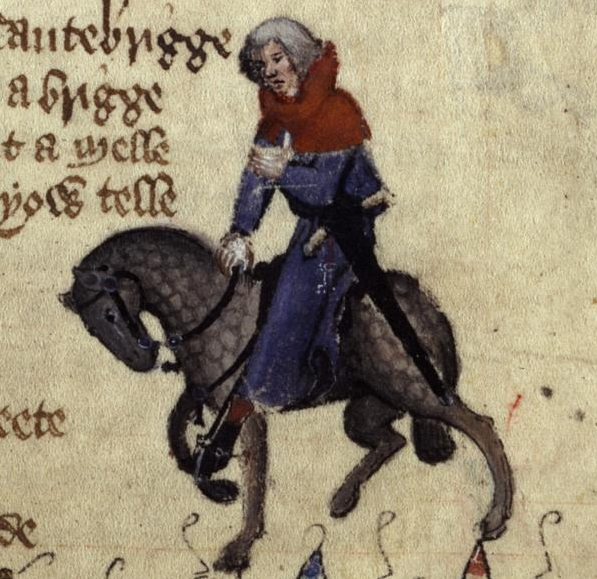 The Reeve in the Ellesmere manuscript of Geoffrey Chaucer's Canterbury Tales.